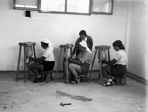 Dry training